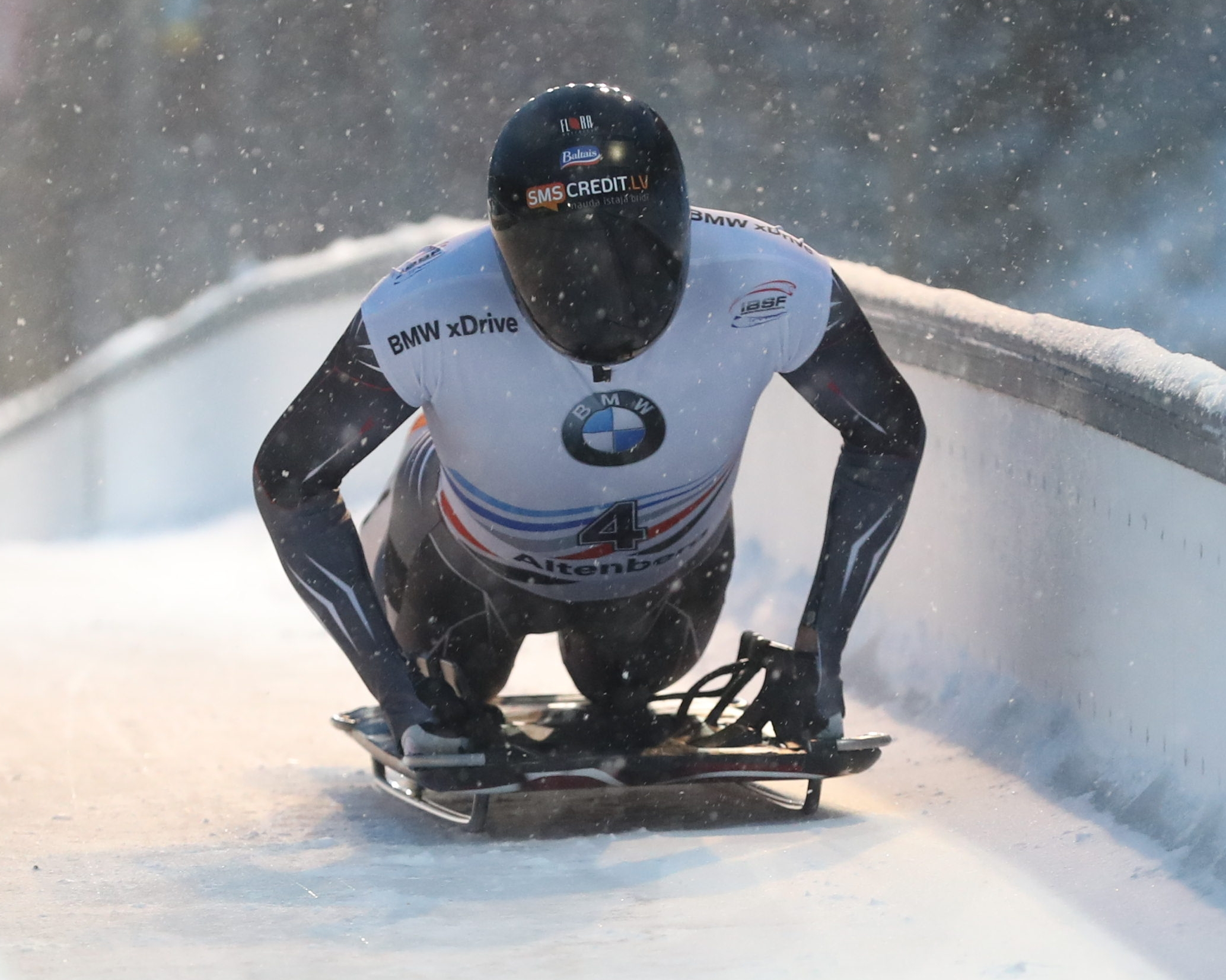 Men's World Cup race at the 2018/19 Skeleton World Cup in Altenberg